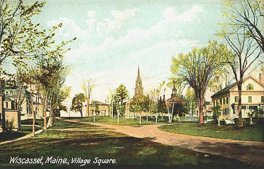 Village Square, Wiscasset, ME; from a c. 1910 postcard.